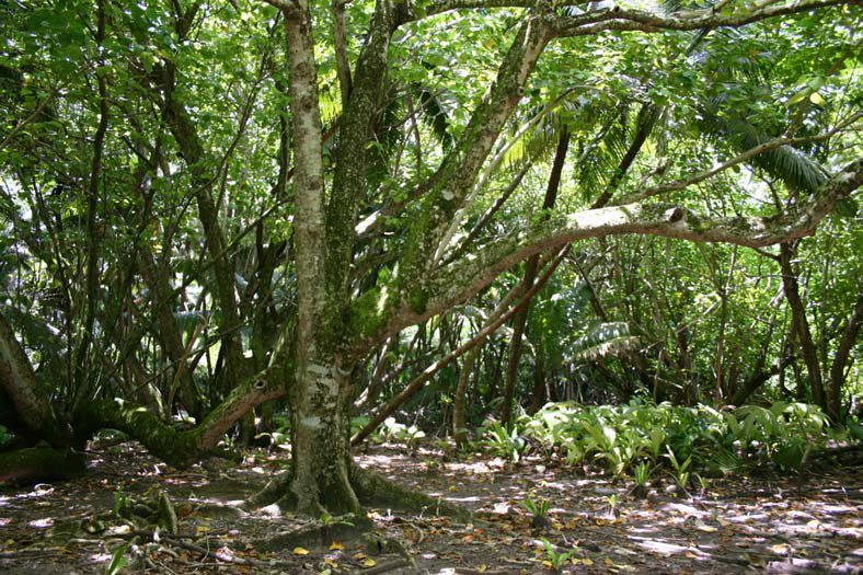 Littoral Scrub, ocean-side, Diego Garcia, British Indian Ocean Territory